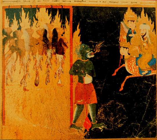 A Persian depiction of Muhammad visiting Hell during the Isra and Mi'raj (Night Journey) and seeing women strung up by hooks thrust through their tongues by a green demon. Their crimes were to "mock" their husbands and to leave their homes without permission. Muhammad is depicted riding Buraq and being accompanied by Gabriel.